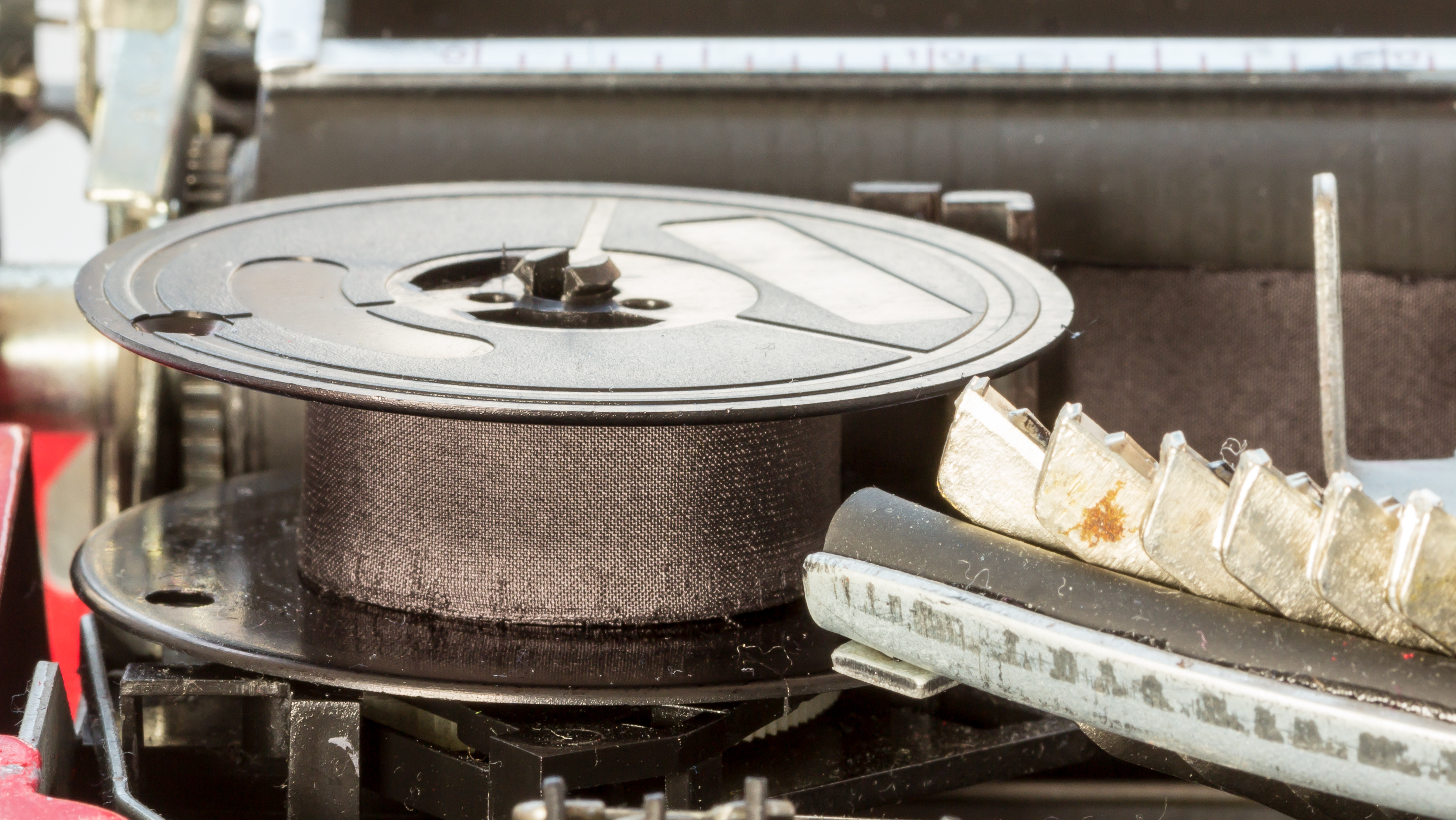 Silver-Reed SR 200 in red. Detail: Typewriter ribbon